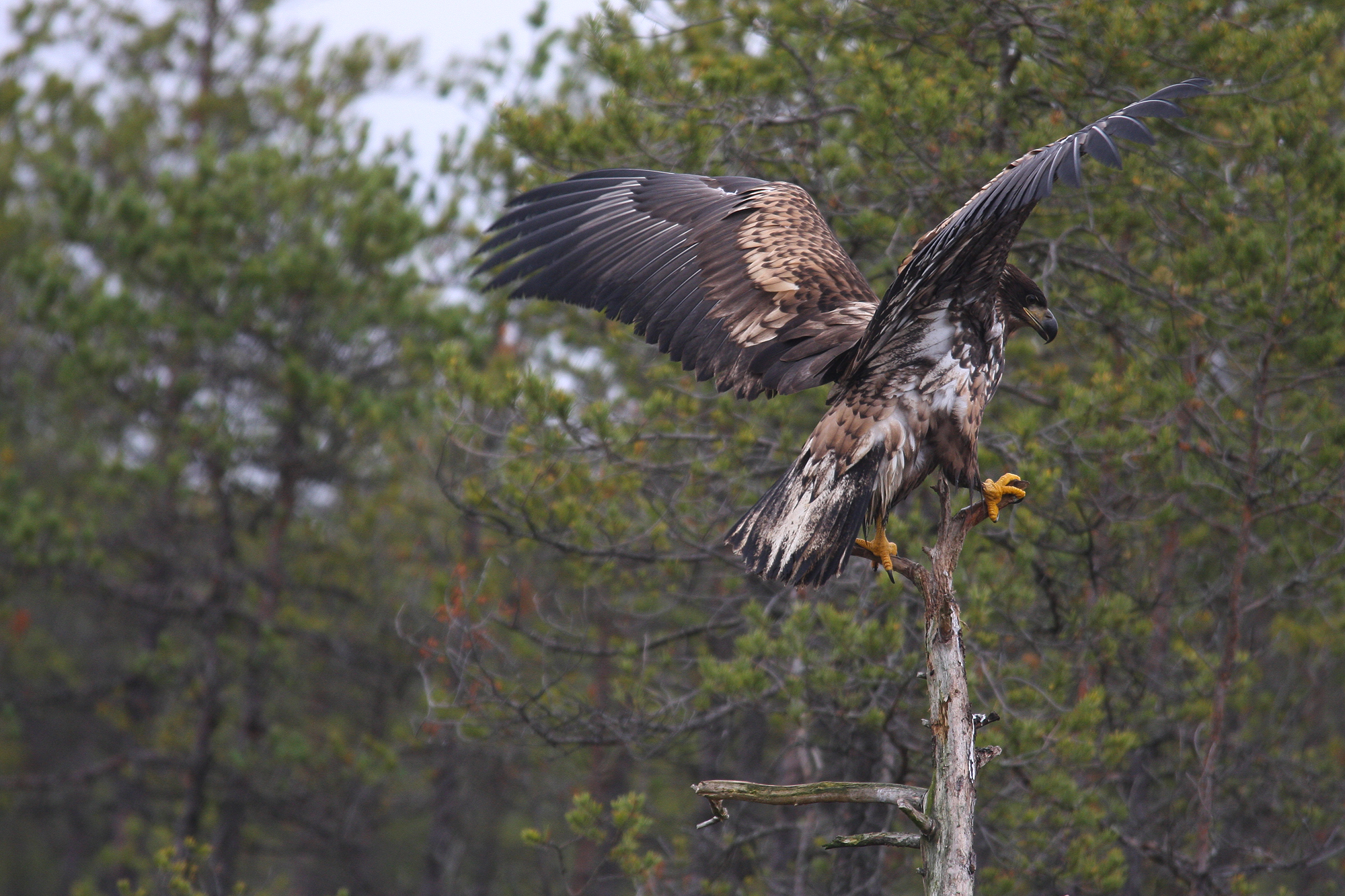 Young Haliaeetus albicilla in Tartu County, Estonia.